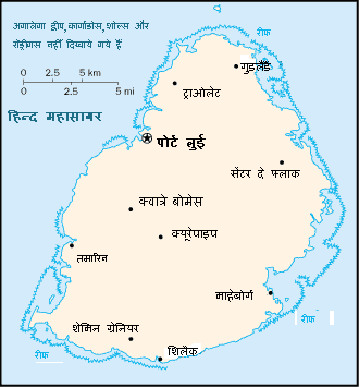 Mauritius map CIA